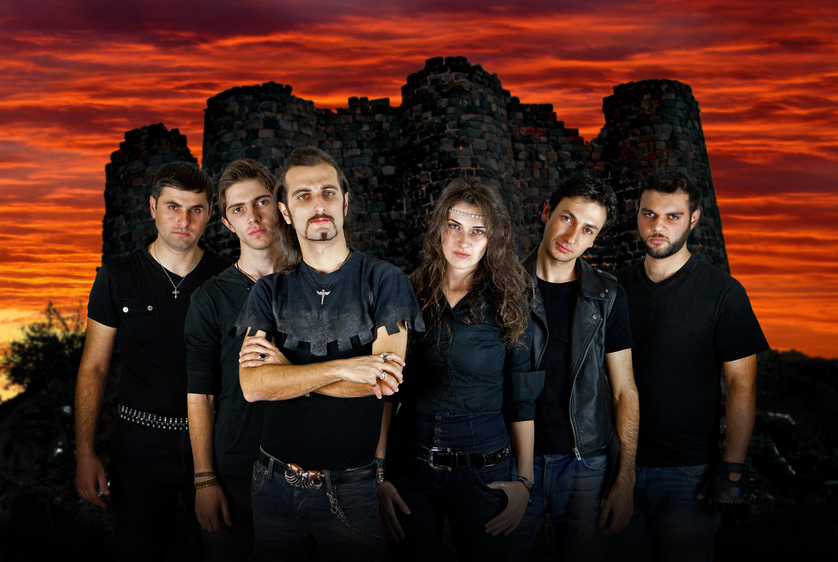 Nairi rock band